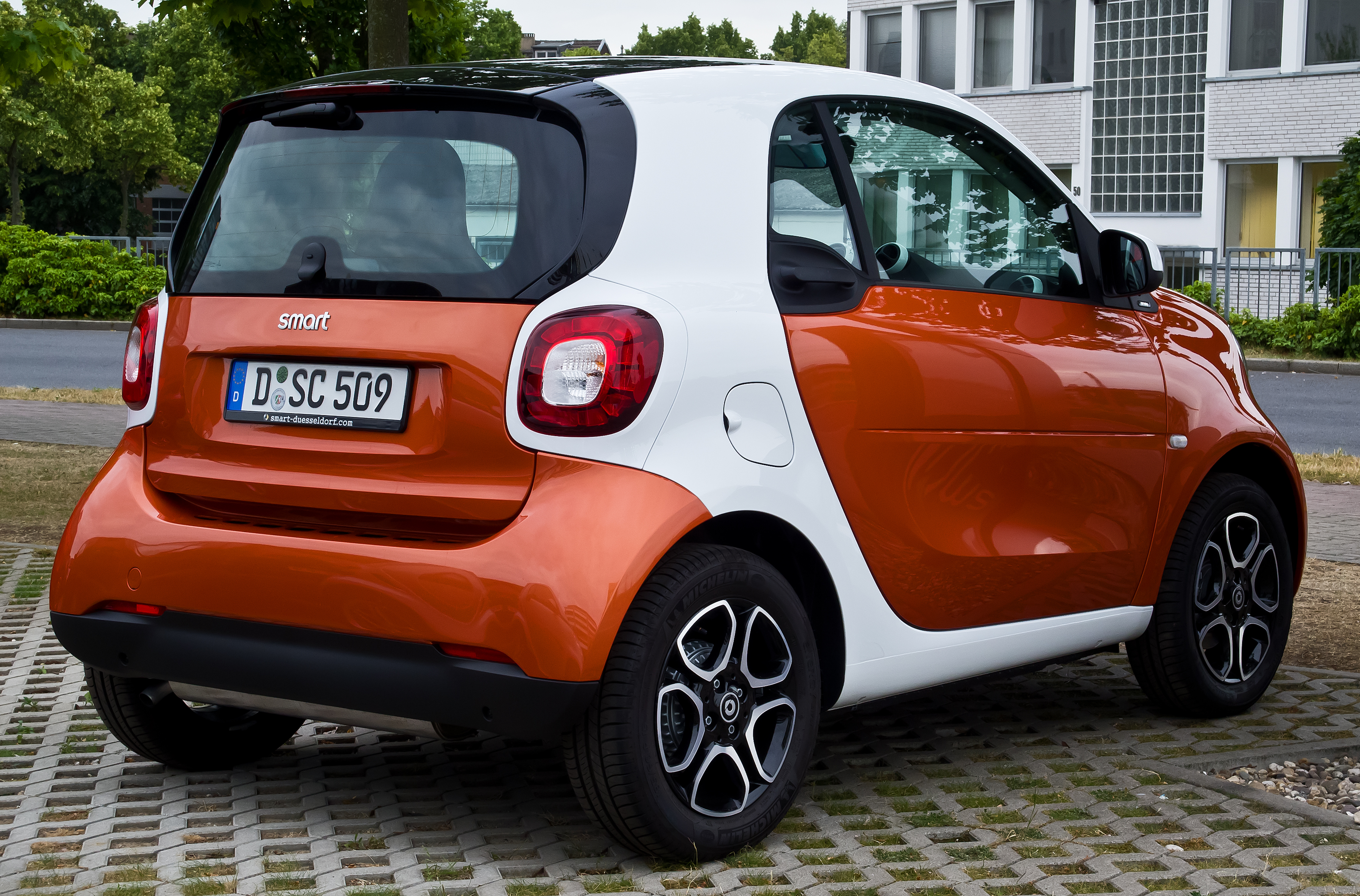 Smart Fortwo Coupé Prime (C 453)